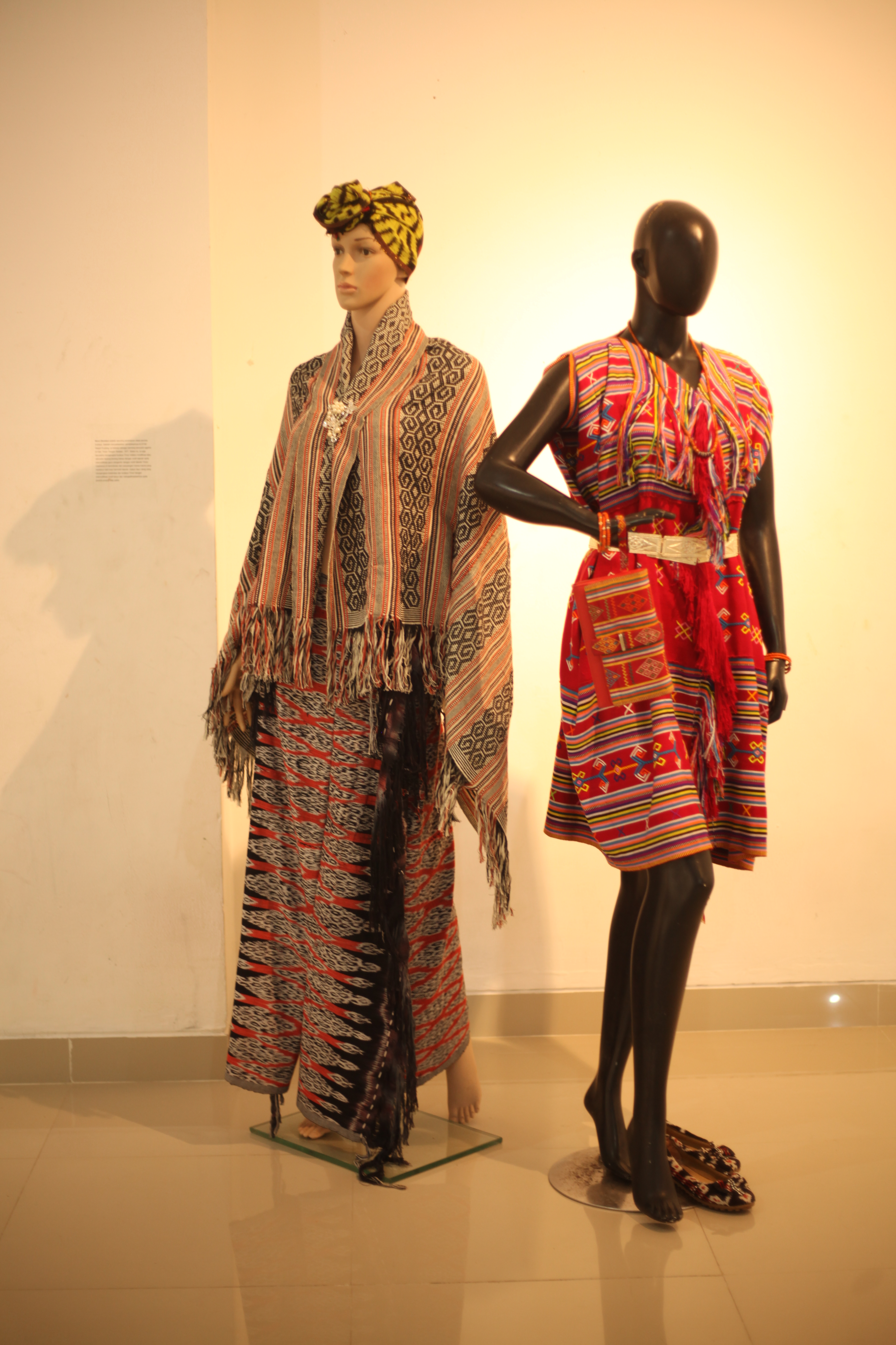 This is part of the exhibition at CME-Fest featuring fashion wear using woven fabric from East Nusa Tenggara by Norci Nomleni.